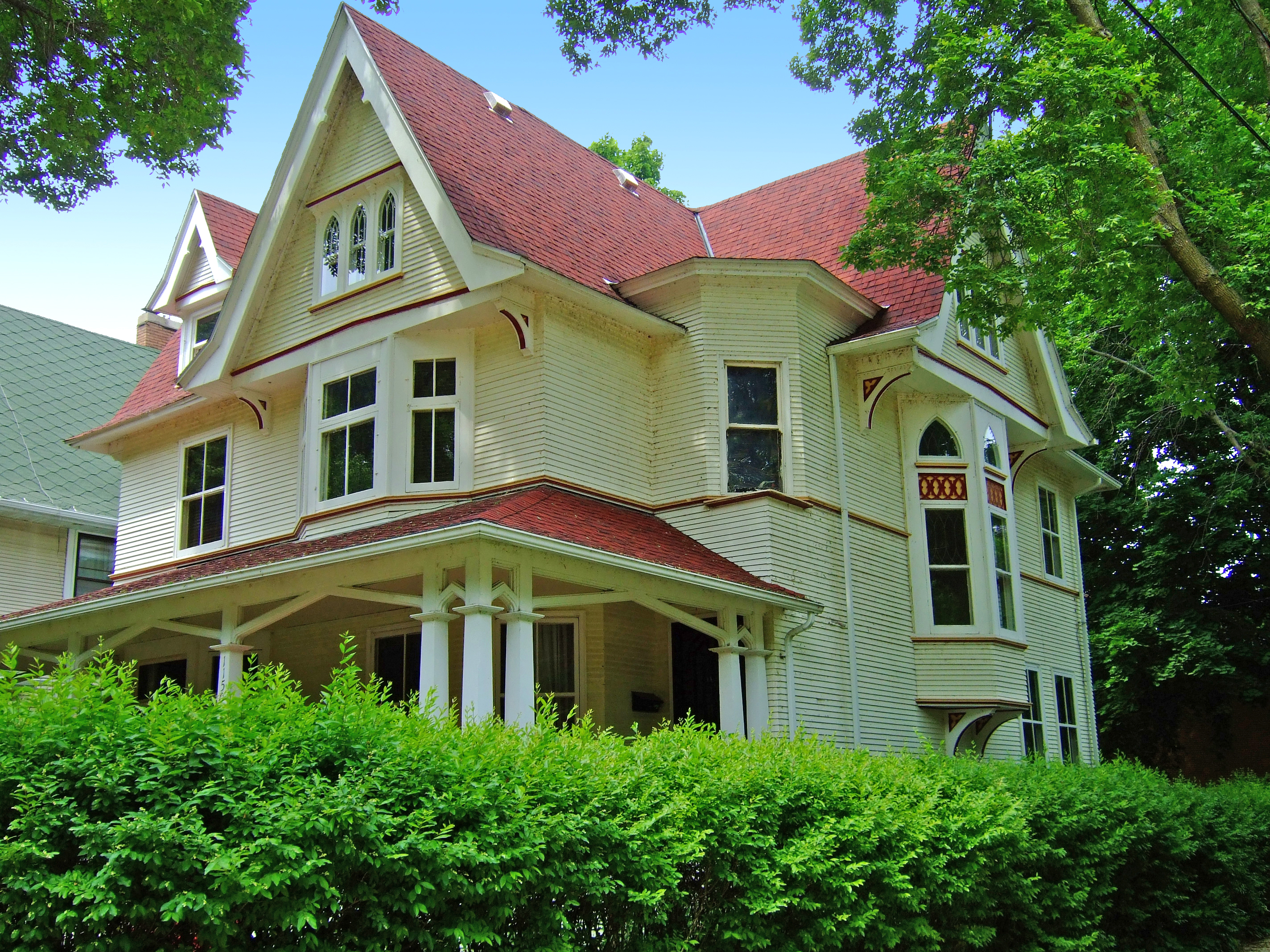 The Bascom B. Clarke House (1899) at 1150 Spaight Street in Madison, Wisconsin, was designed by Claude and Starck in the Queen Anne style with Arts and Crafts elements. It was added to the National Register of Historic Places in 1980.